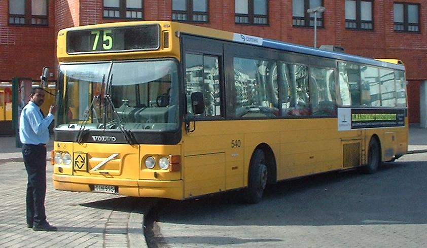 Connex Volvo B10BLE / Säffle 2000 bus (#540) at Puistola station in northern Helsinki, Finland.